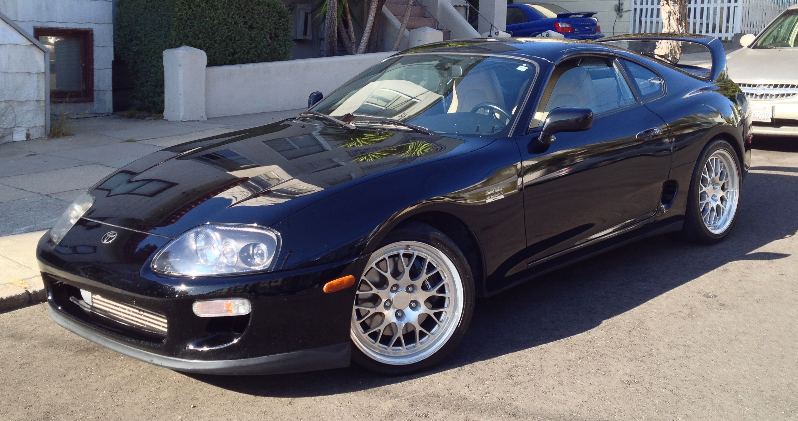 This is a picture of a Black 1997 Toyota Supra Limited Edition - 6 Speed Twin Turbo with Targa Top with aftermarket rims and intercooler.